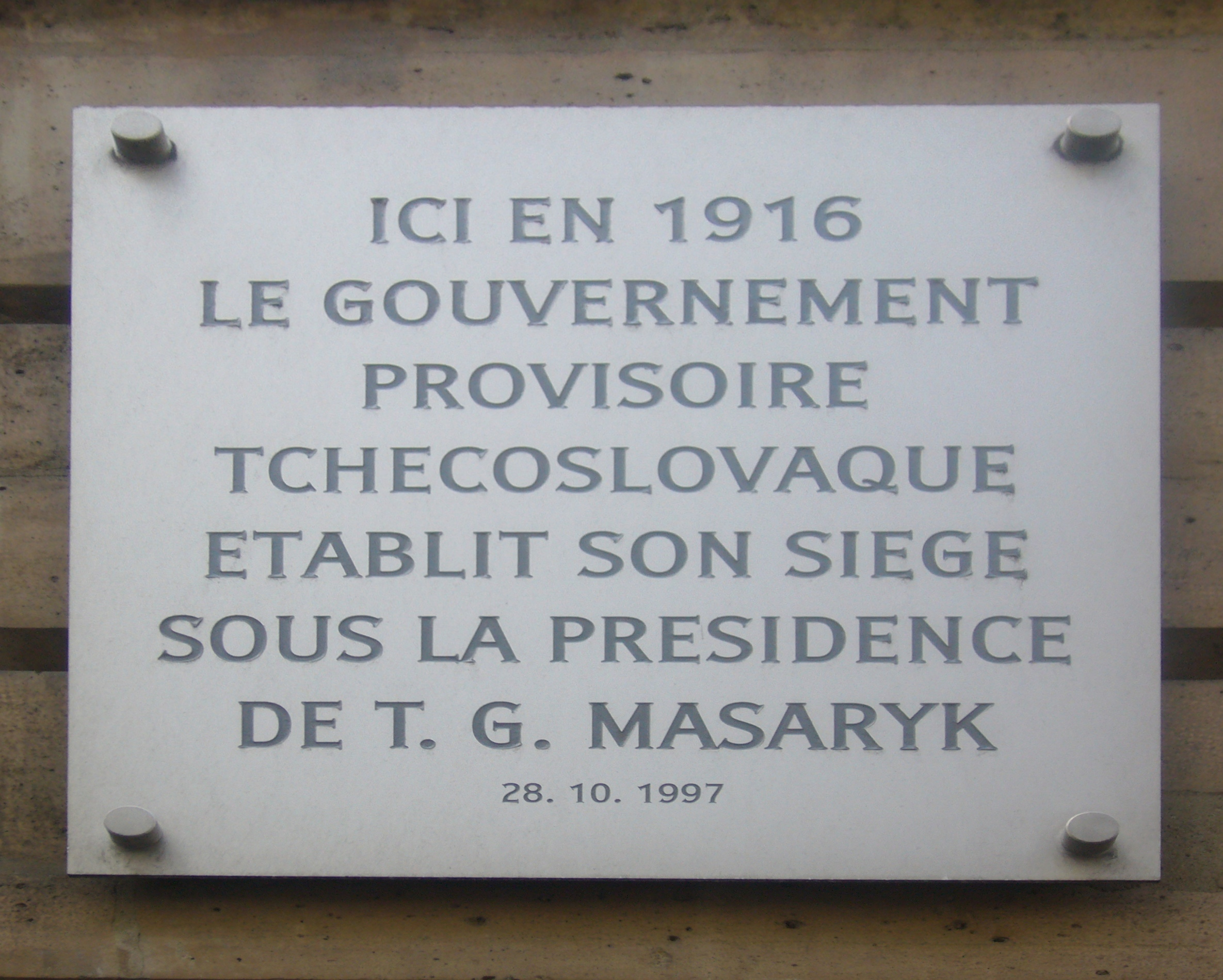 A tablet at the house of the provisorial Czechoslovak government in Paris (1916 - 1917). Plaque posée en 1997 et remplacée en 2016.